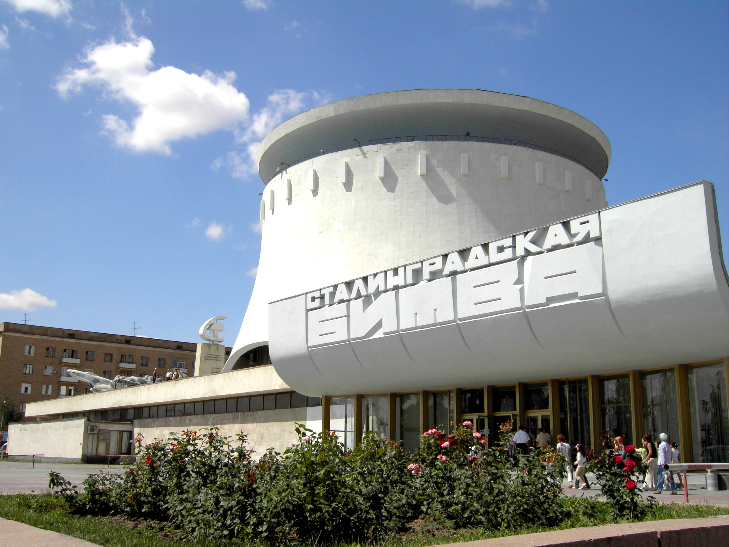 Volgograd panorama museum "Stalingradskaja bitva" (Battle of Stalingrad)